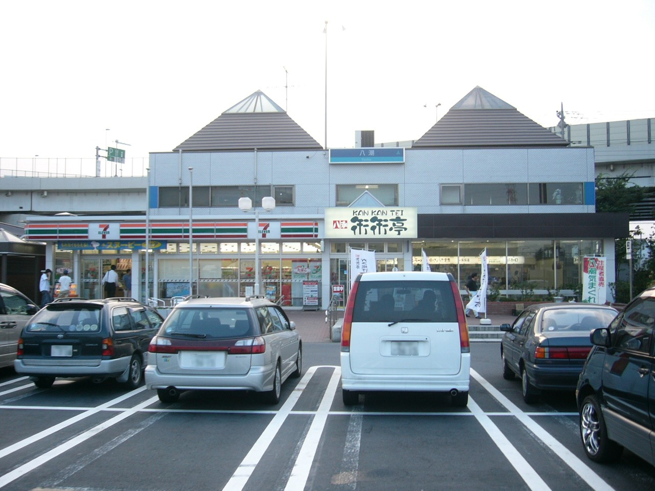 Yashio Parking Area